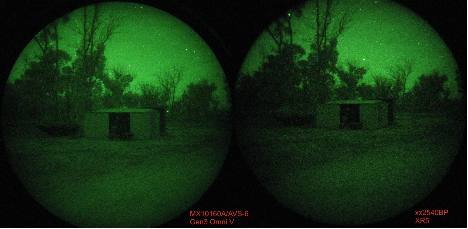 A direct photographic comparison between Gen3 Omni V performance and Gen2 XR5 performance under extremely dark conditions. Images taken by David Kitson.